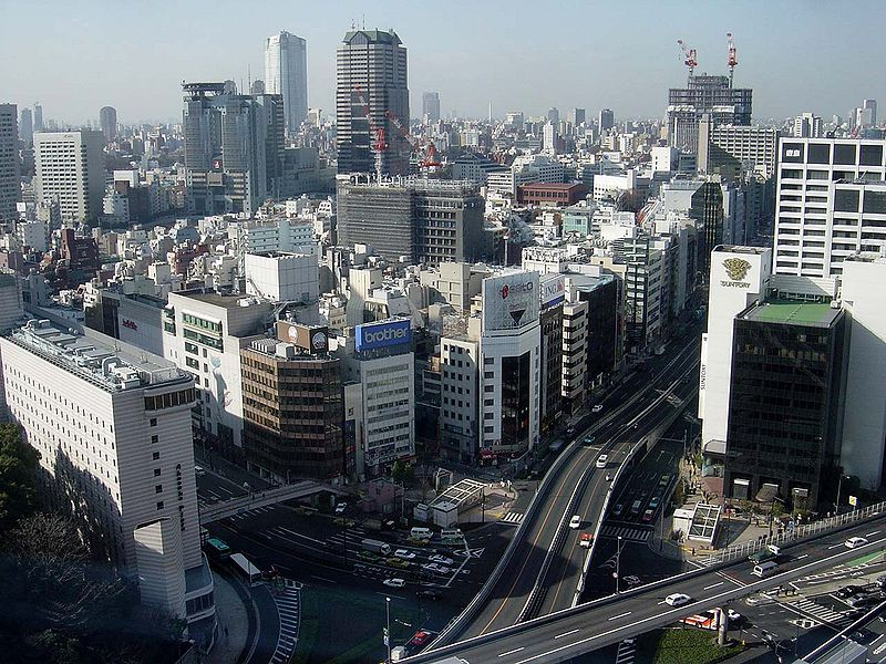 Photo taken by Bobak Ha'Eri. March 2005. Please observe license and properly cite in use outside Wikipedia.